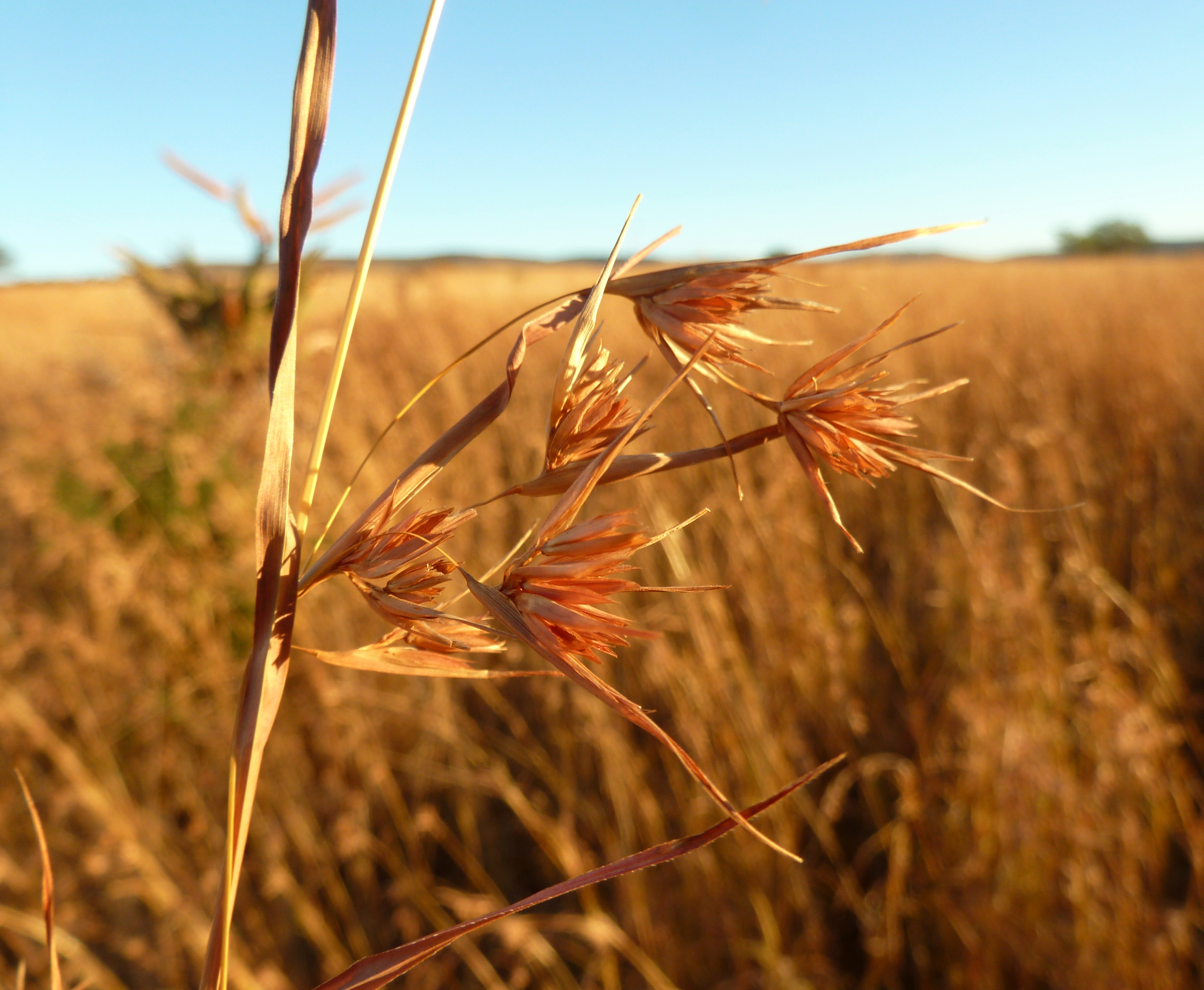 Spikelets of Themeda triandra at Dingaanstat, eMakhosini Ophathe Heritage Park